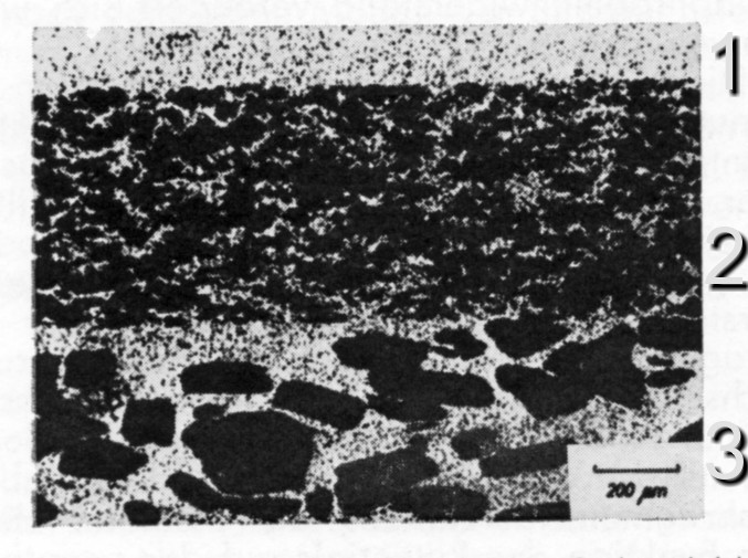 polished cut image of a gas diffusion electrode.